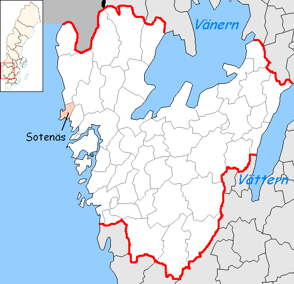 Sotenäs Municipality in Västra Götaland County Designed by me. Mere outlines are a PD source from